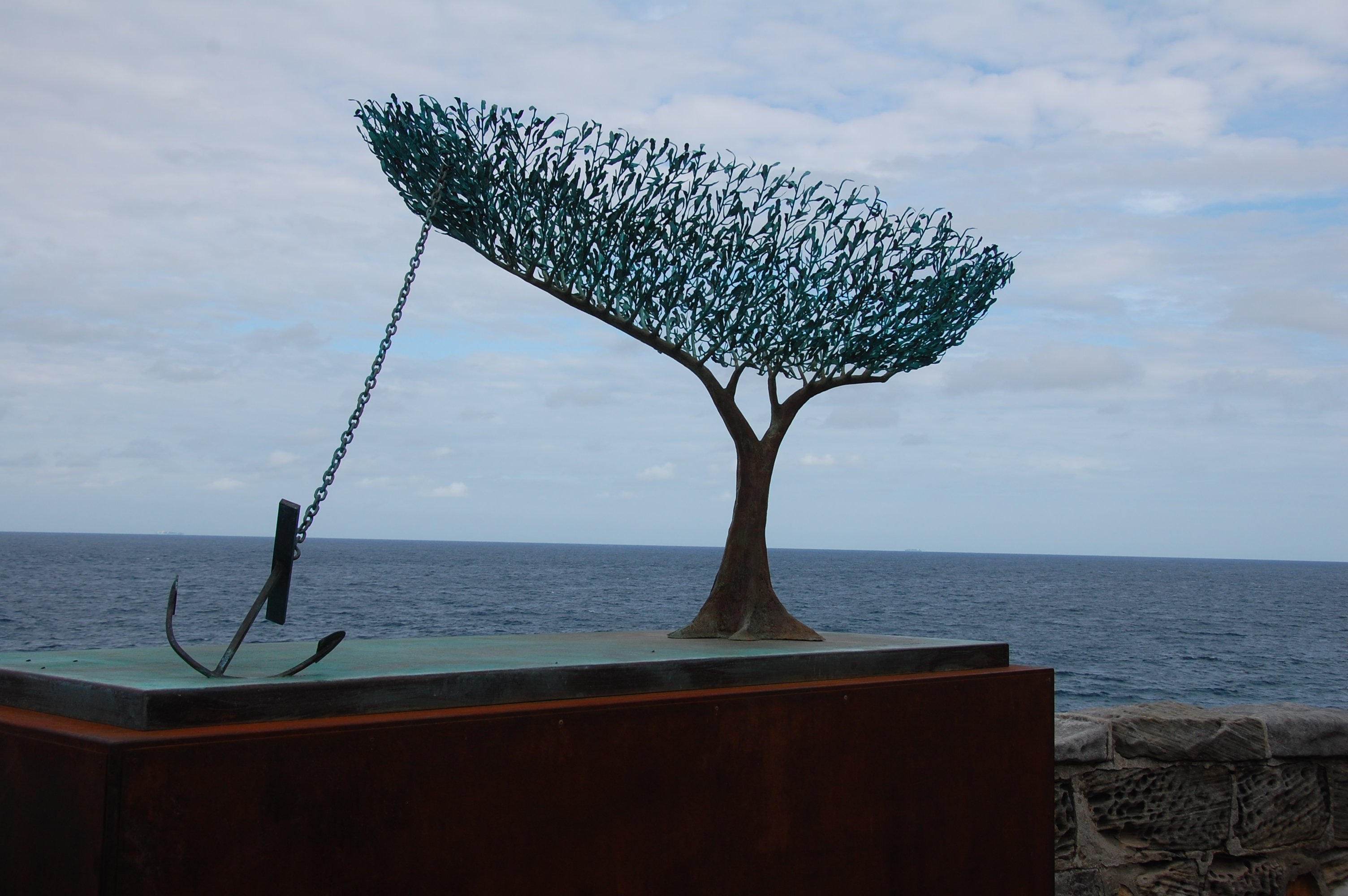 Alex Kosmas's nexus